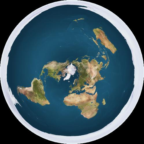 A rendered picture of the Flat Earth model. The white around the outside of the globe is an 'Ice Wall', preventing people from falling off the surface of the earth.